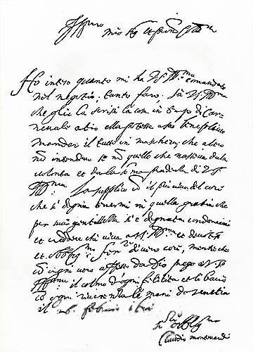 Monteverdi's letter to his patron